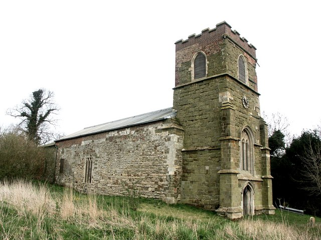 Photograph of St Michael's Church, Burwell